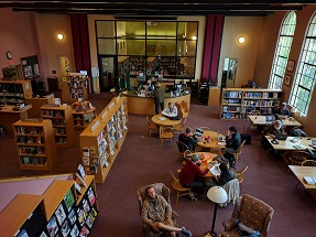 A view from the mezzanine of the main floor of the Library.